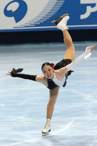 Yukari Nakano at the 2009 Trophée Eric Bompard.